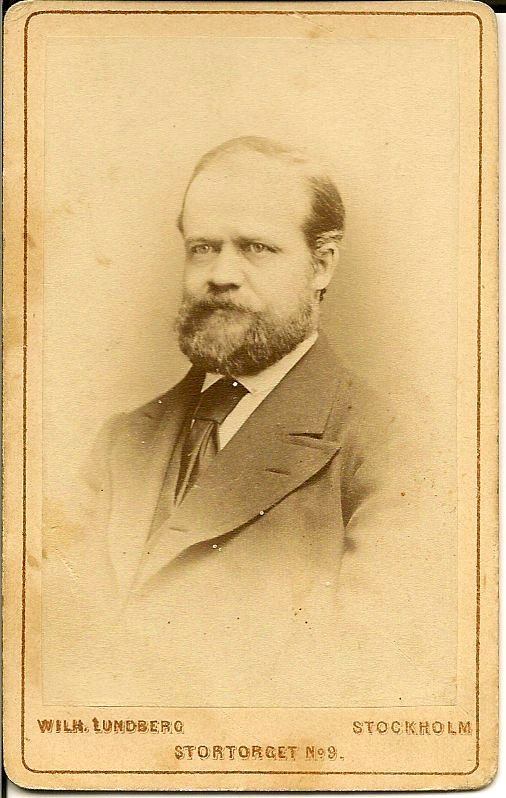 Swedish politician from late nineteenth century